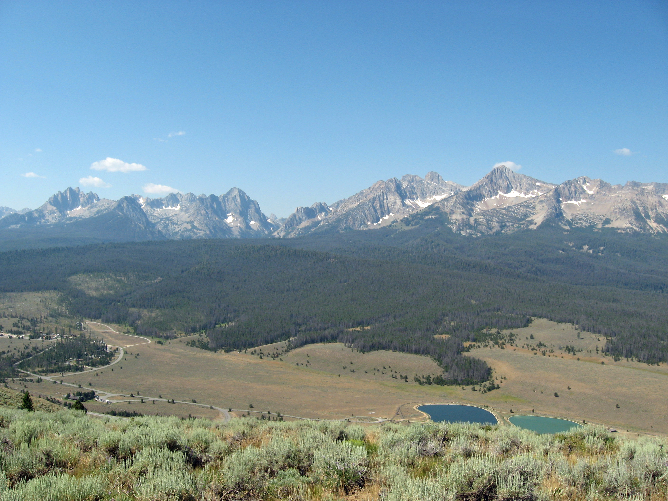 The Sawtooth Range in Sawtooth National Recreation Area, viewed from a ridge southeast of Stanley, Idaho